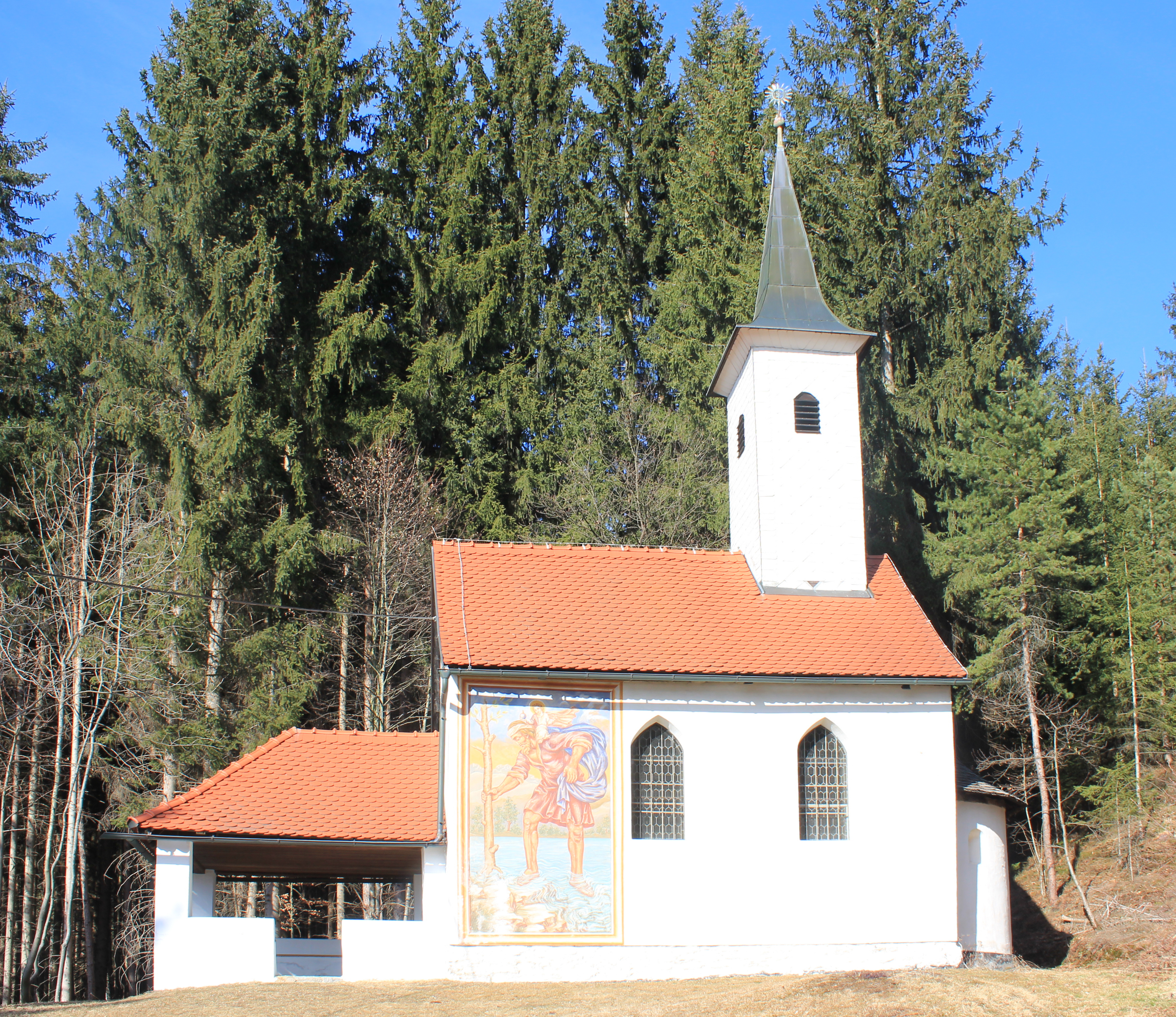 Church of St. Michael in the community of Villach